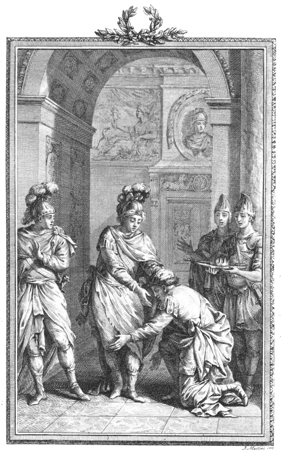 Metastasio - Demetrio, Atto III, Scena VIII. „Son tuo vasallo, ed il mio Re tu sei”